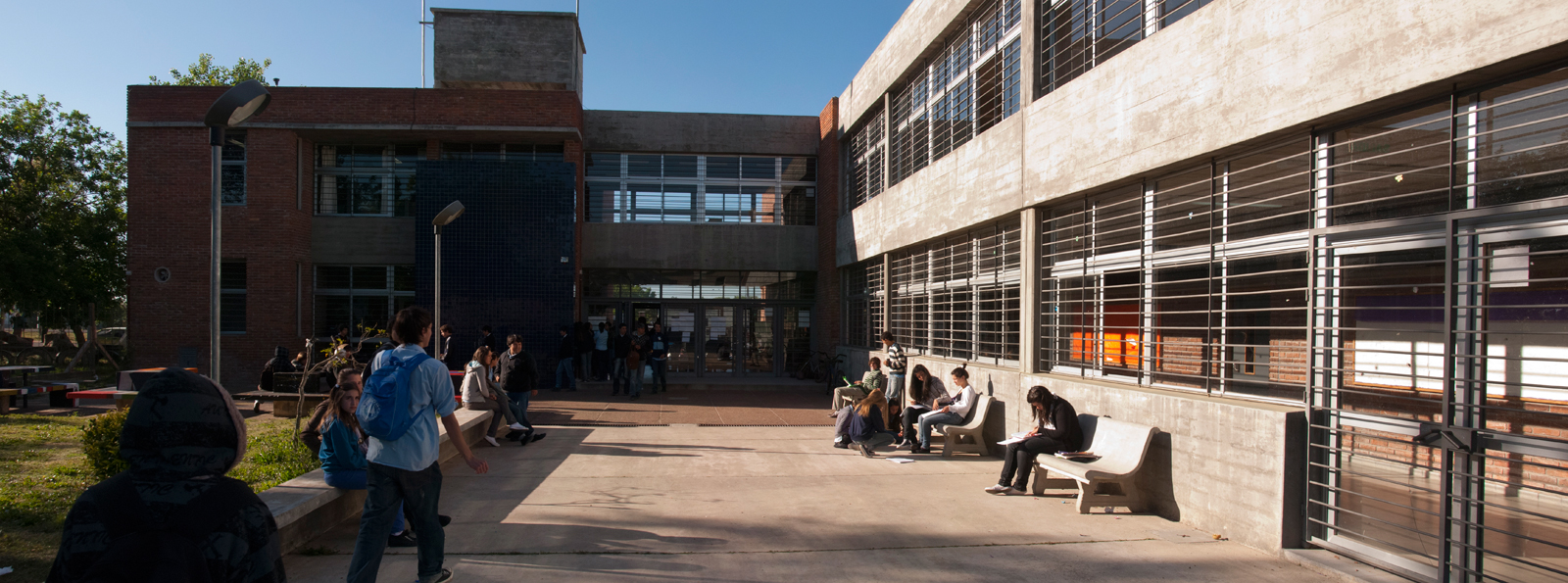 Secondary school 3 of the city of Treinta y Tres, Uruguay